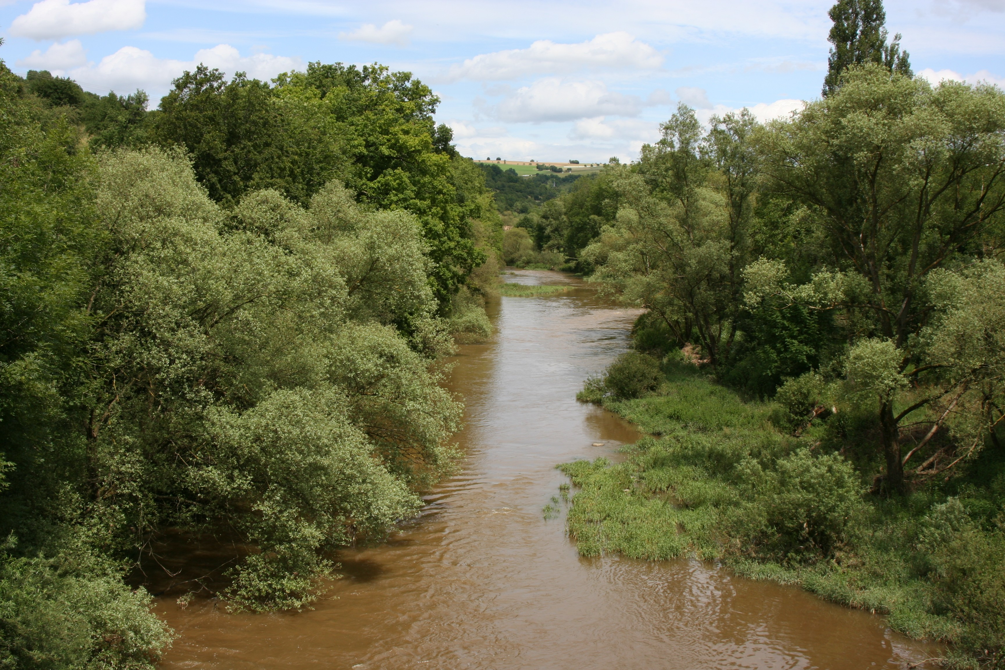 The river Jagst in Dörzbach-Hohebach to the East (upstream)